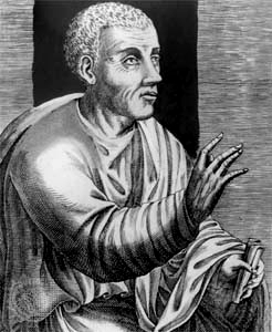 Portrait of Quintilian